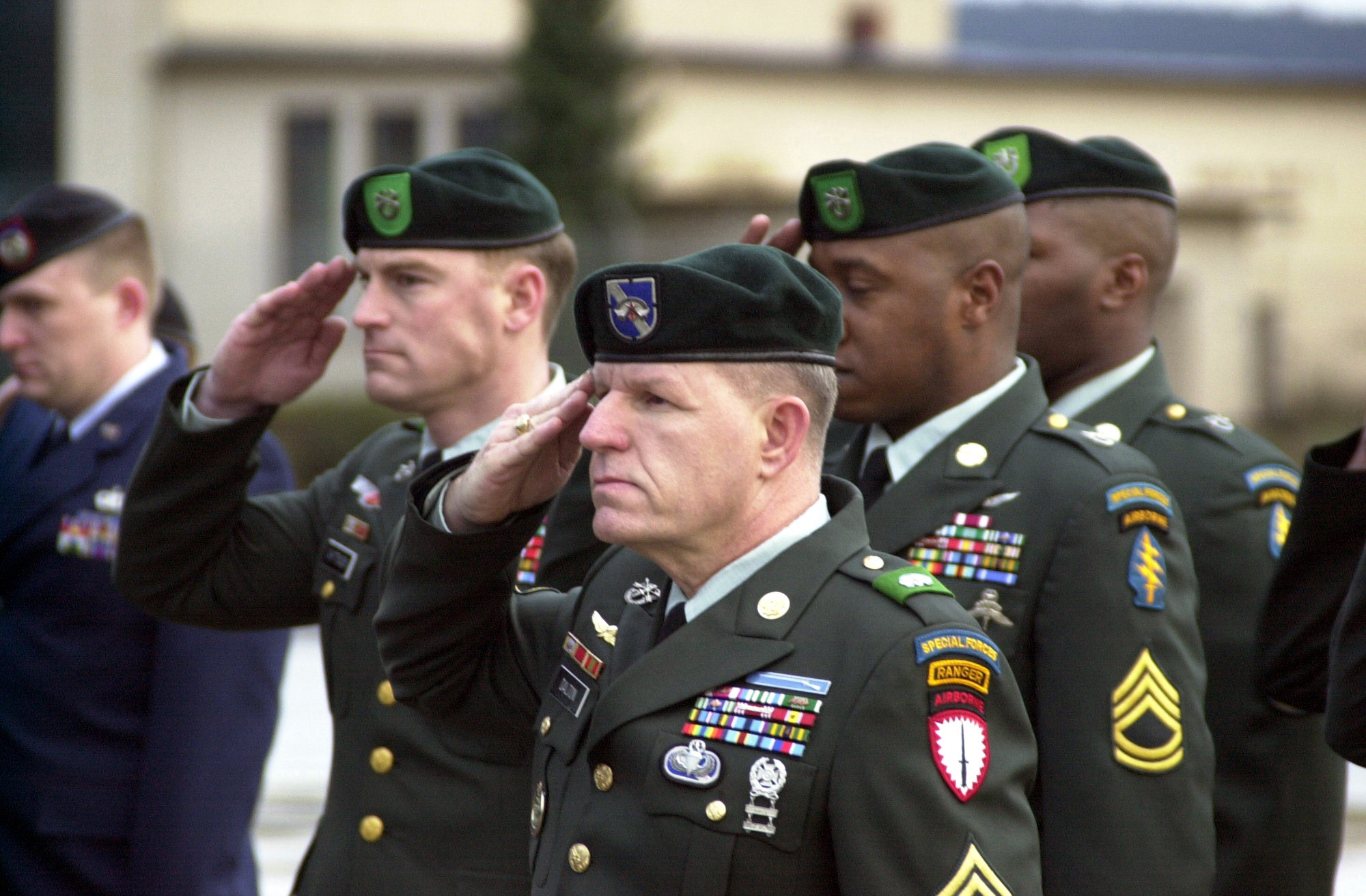 During a Fallen Soldier Ceremony at Ramstein Air Base, Germany, one of the flag draped coffins (not shown) containing the remains of one of 6 coalition soldiers, killed in Kuwait during a training exercise March 12 2001, is rendered a salute from a formation of Army Green Berets, as it is carried off a C-17 Globemaster III aircraft (not shown) for transportation to the Landstuhl Regional Medical center for identification.